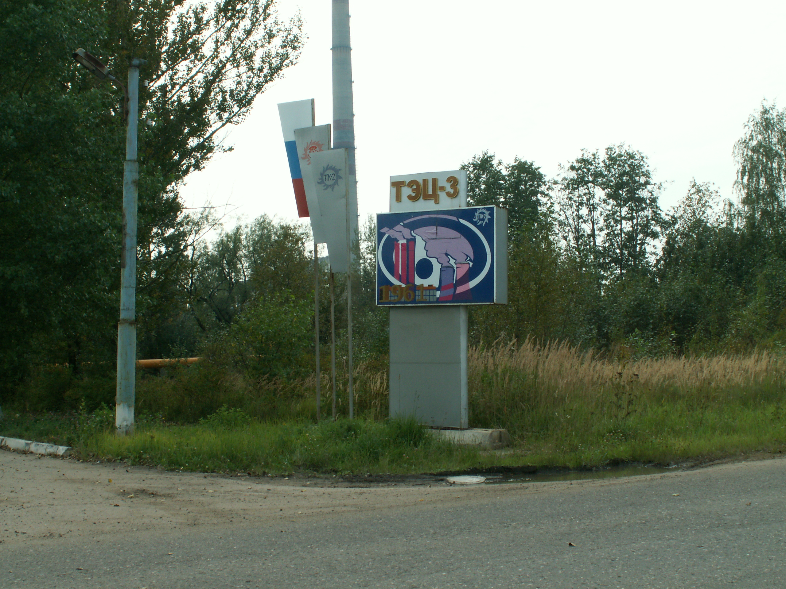 Sign at the entrance to the 3rd electric power station in Yaroslavl.